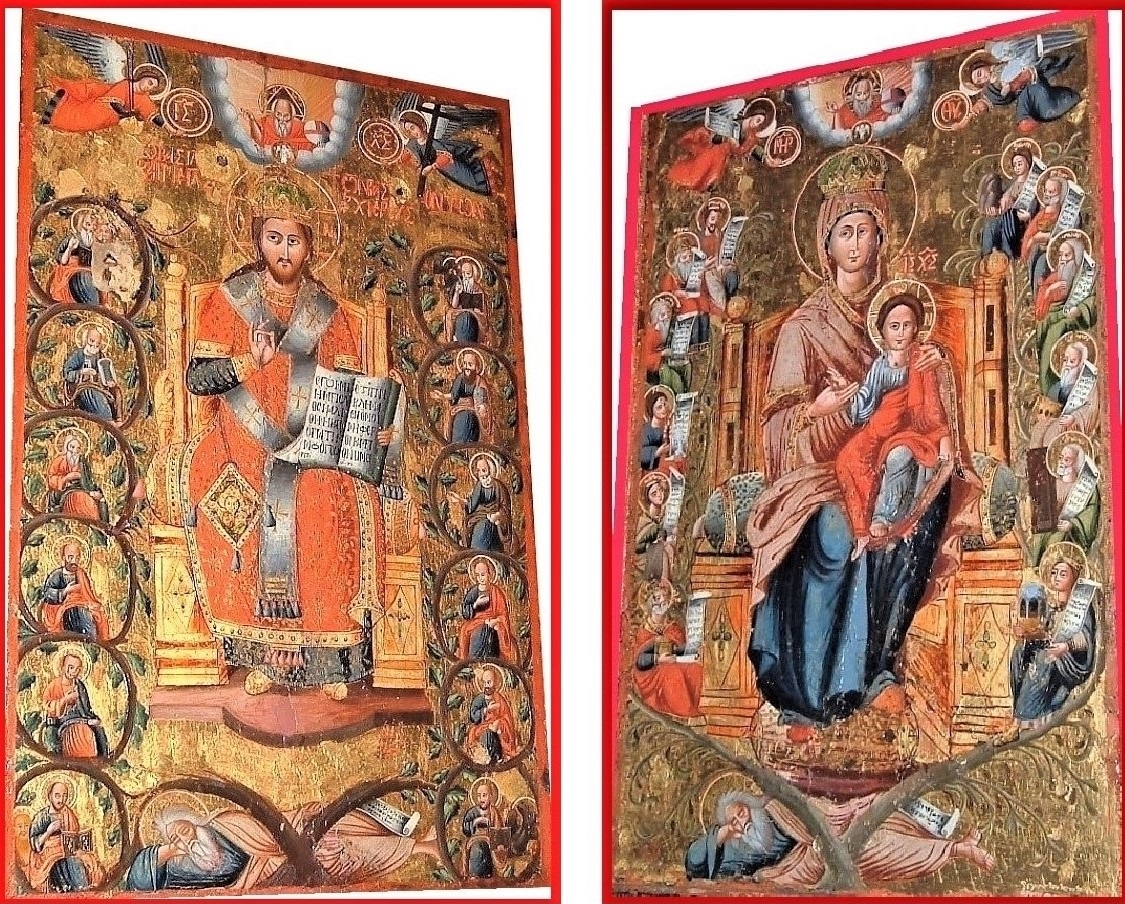 Icons in the Assimtip of Mary Church Lithia Kumanichevo